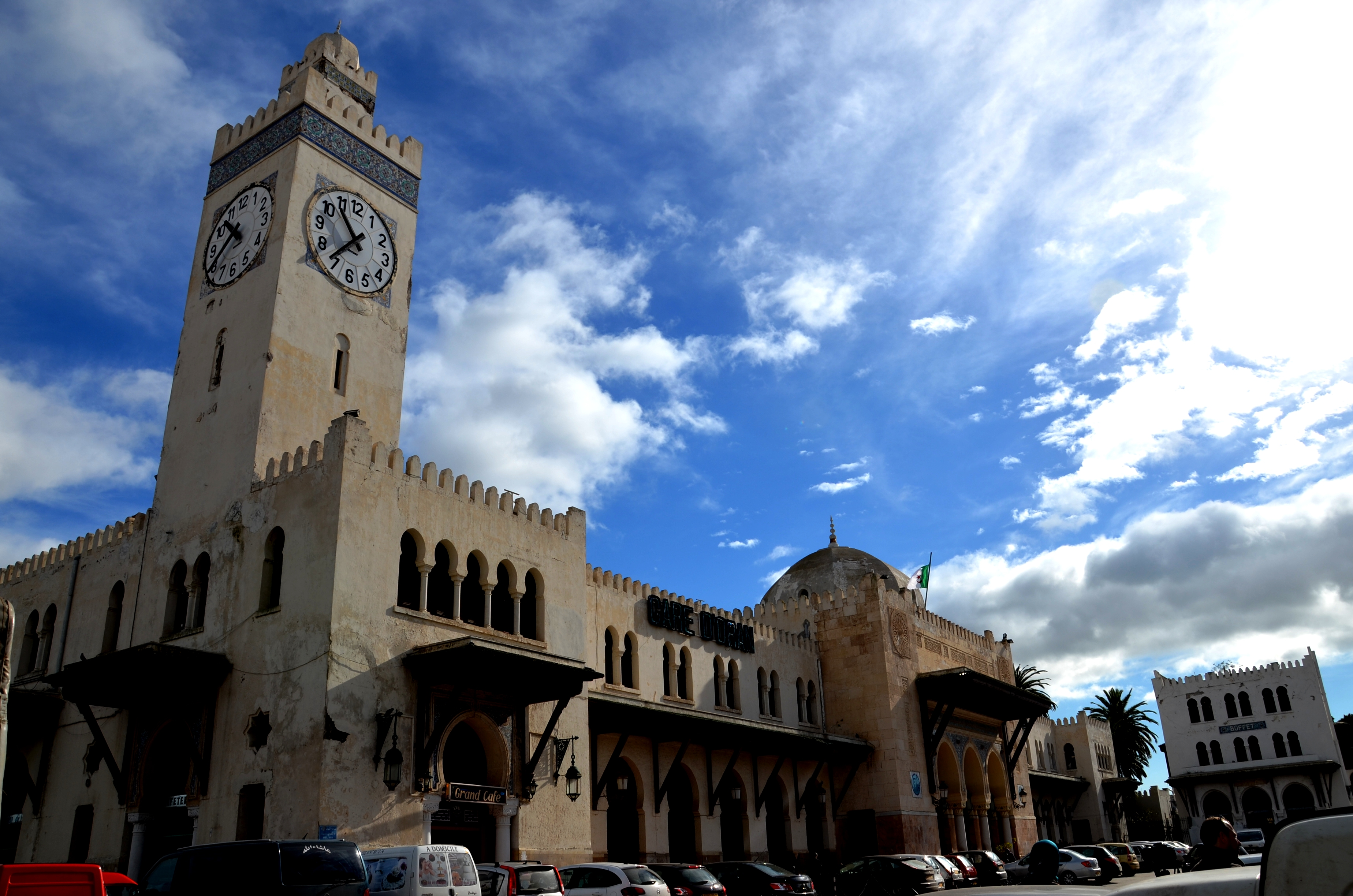 This is an image with the theme "Africa on the Move or Transport" from: Algeria